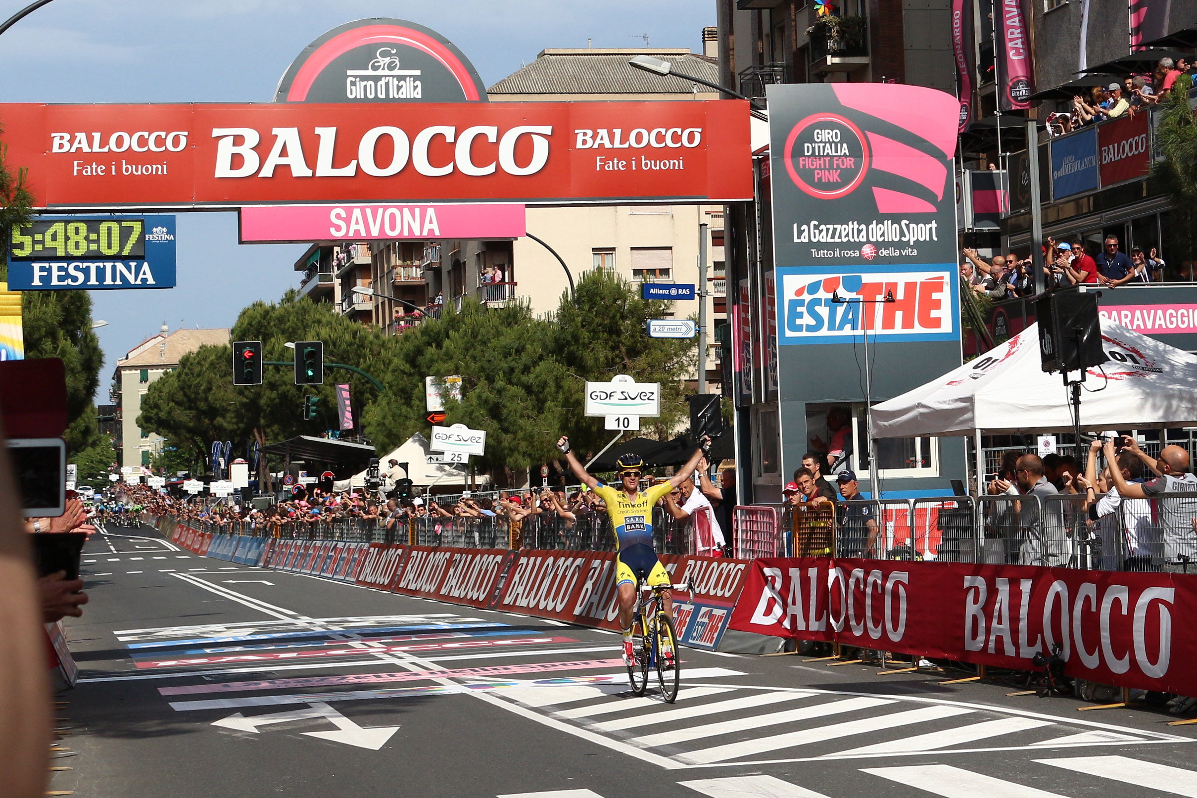 Michael Rogers win the stage 11 of Giro d'Italia 2014